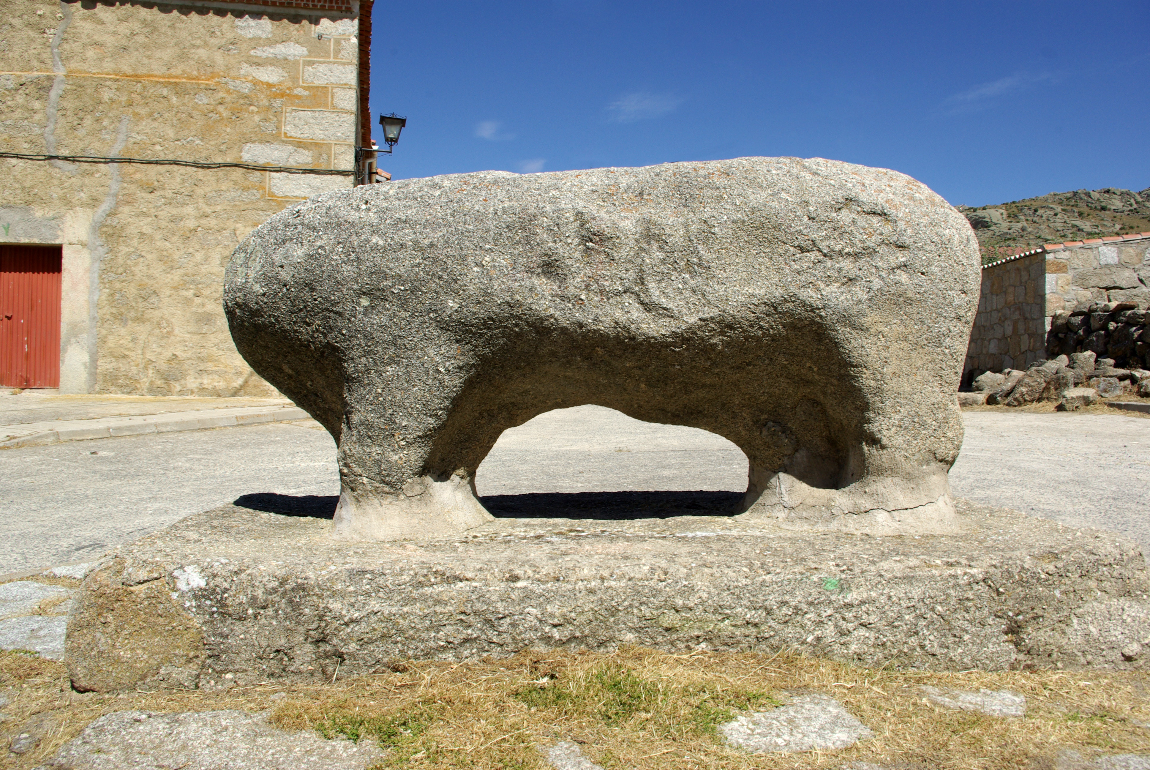 Verraco of Ulaca hill fort in Villaviciosa (Solosancho, Ávila, Spain)